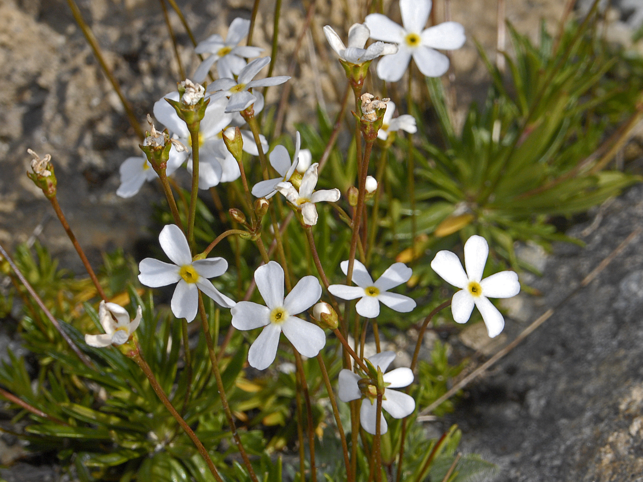 Androsace lactea at the Giardino Botanico Alpino Chanousia